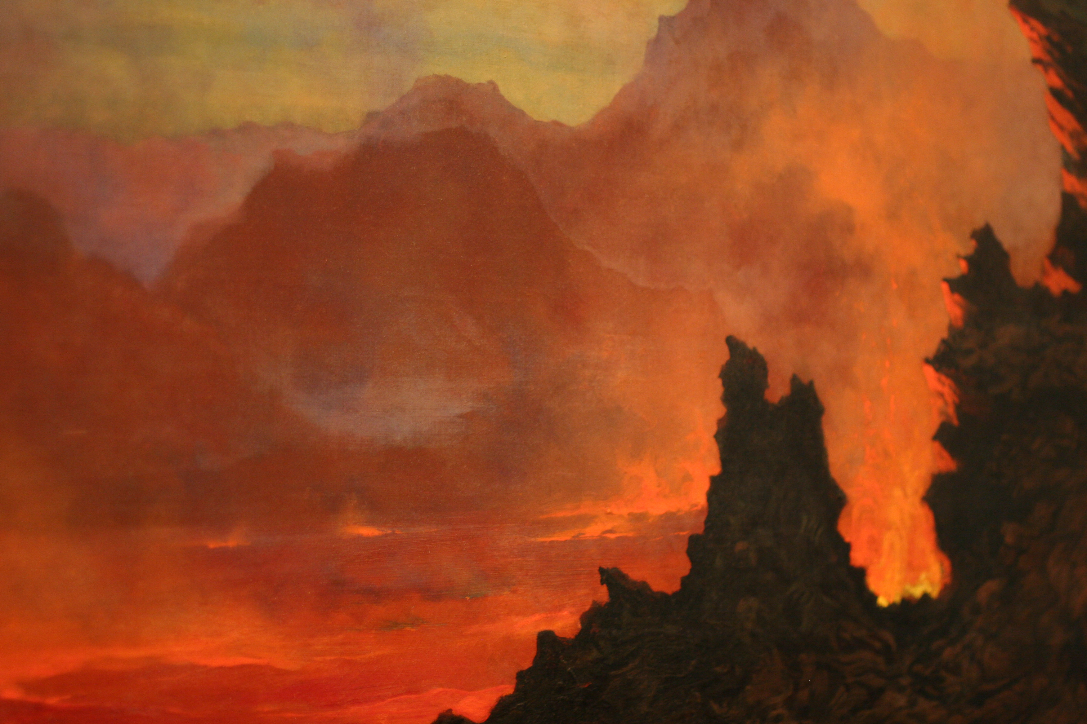 Kilauea Caldera, Sandwich Islands, oil on canvas painting by Jules Tavernier, San Diego Art Museum, 1886